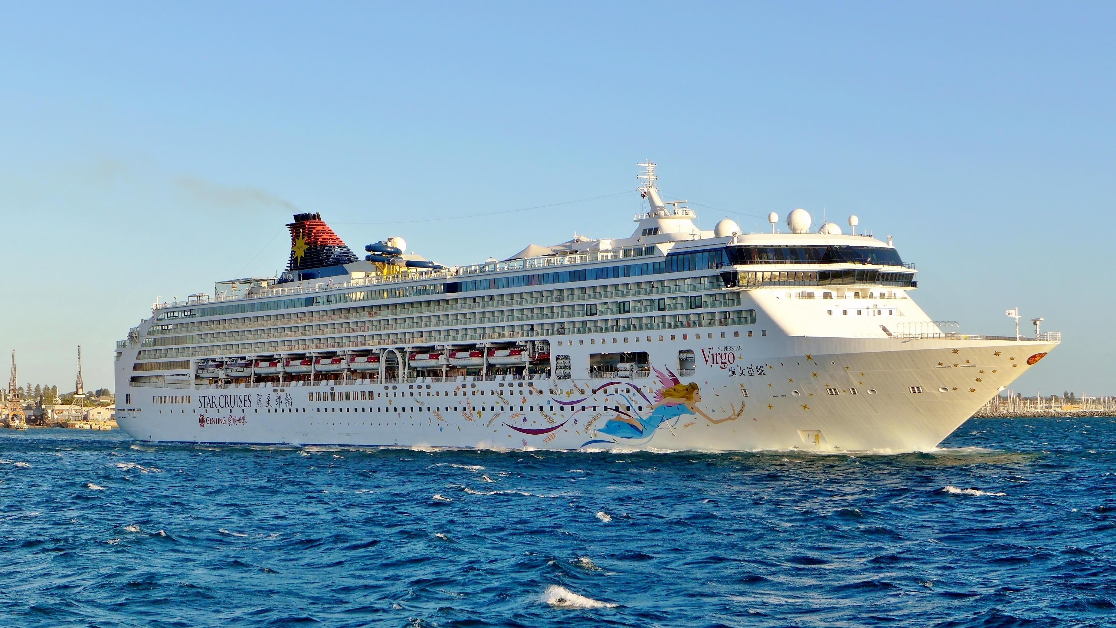 Cruise ship SuperStar Virgo departing from Fremantle Harbour, Western Australia, on a 48-Night Southern Hemisphere Cruise from Hong Kong around the southern side of Australia and back to Hong Kong. Next stop: Albany, Western Australia.